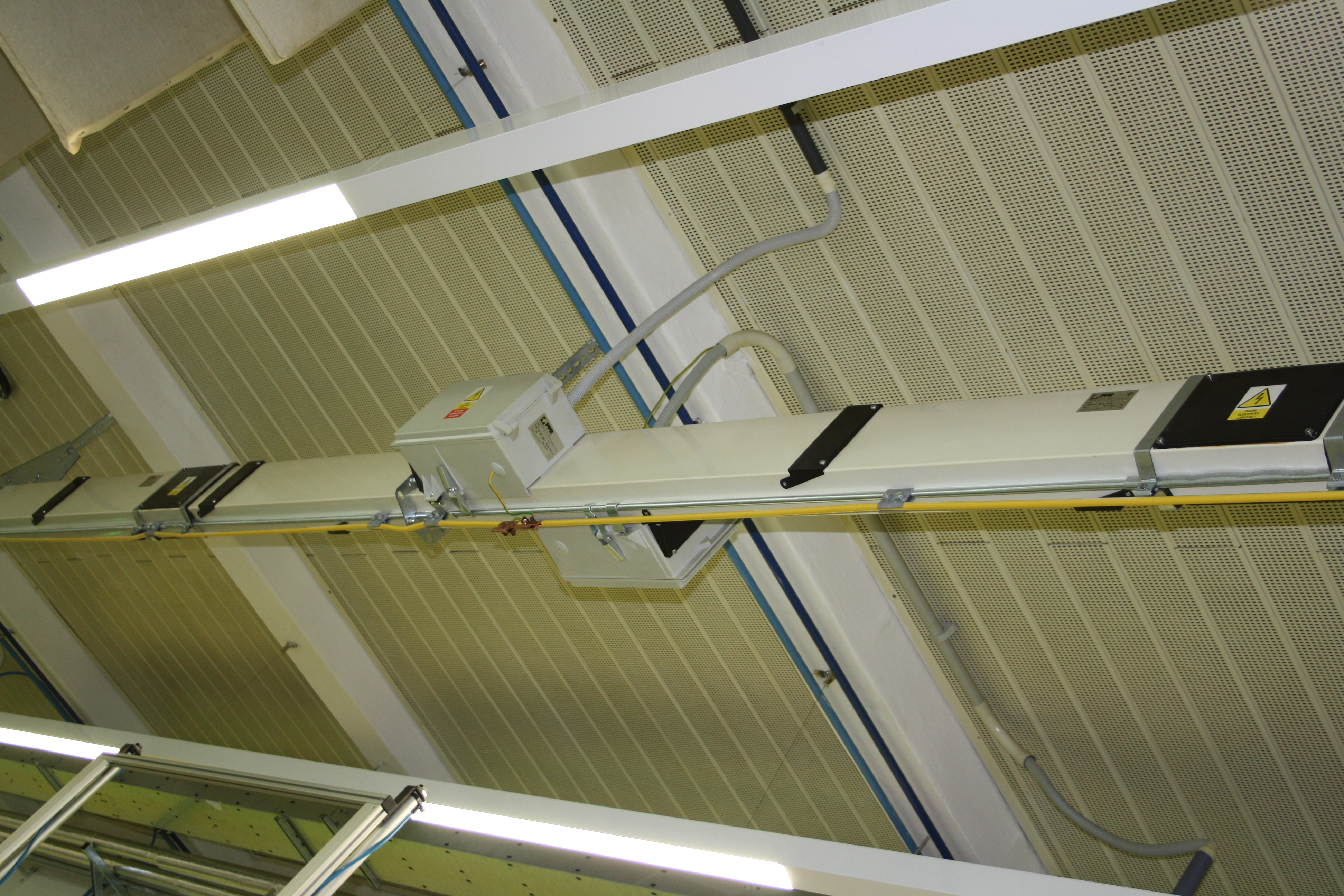 Busbar on top of factory hall